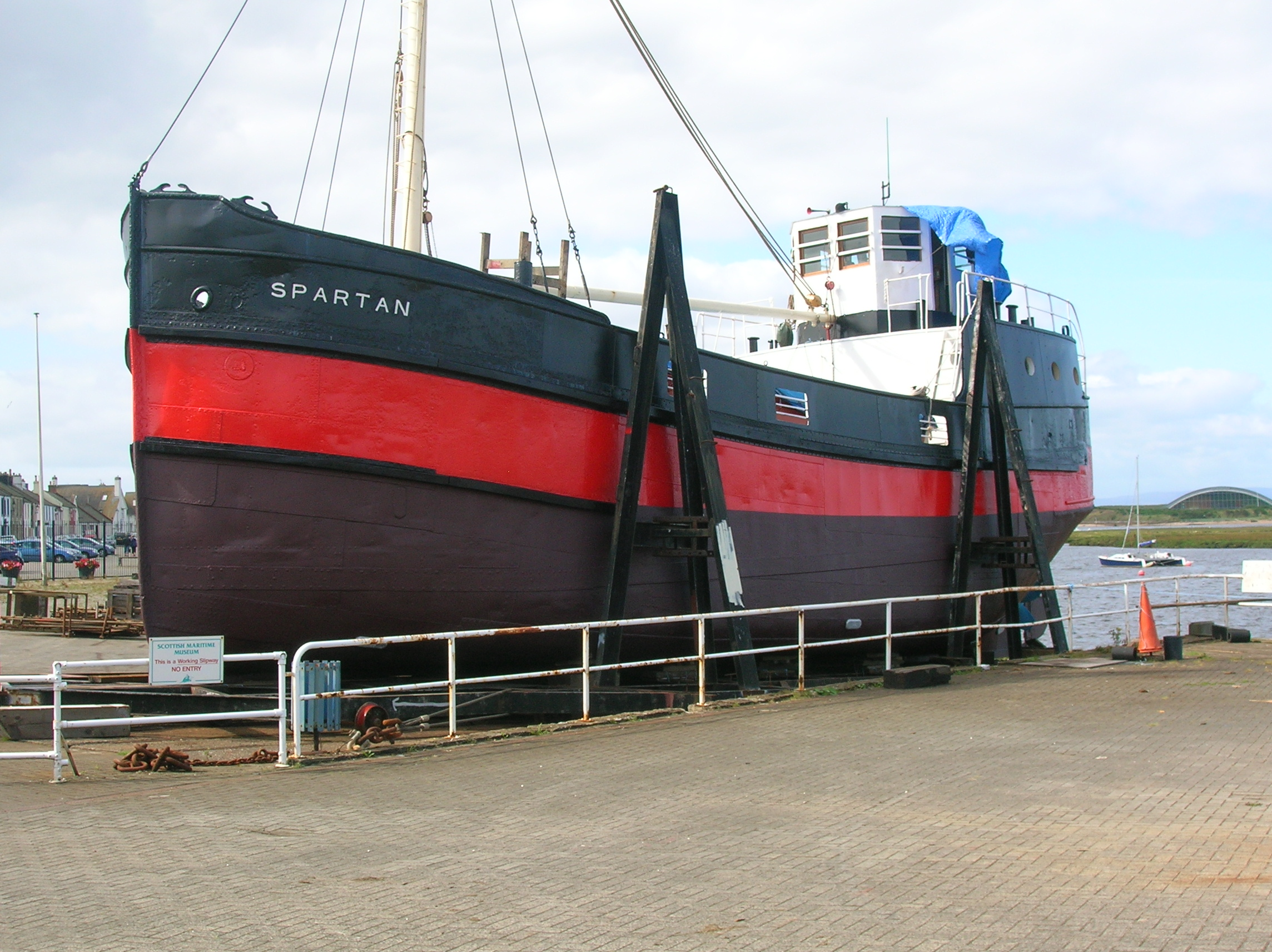 The Clyde Puffer MV Spartan at the Scottish Maritime Museum in Irvine, North Ayrshire, Scotland. Rosser 21:11, 26 August 2007 (UTC)